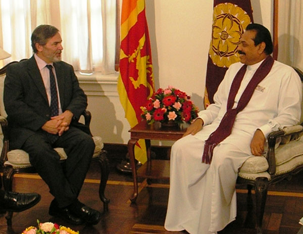 US Assistant Secretary of State for South and Central Asian Affairs Richard Boucher meets Sri Lankan President Mahinda Rajapaksa in Colombo on 1 June 2006.